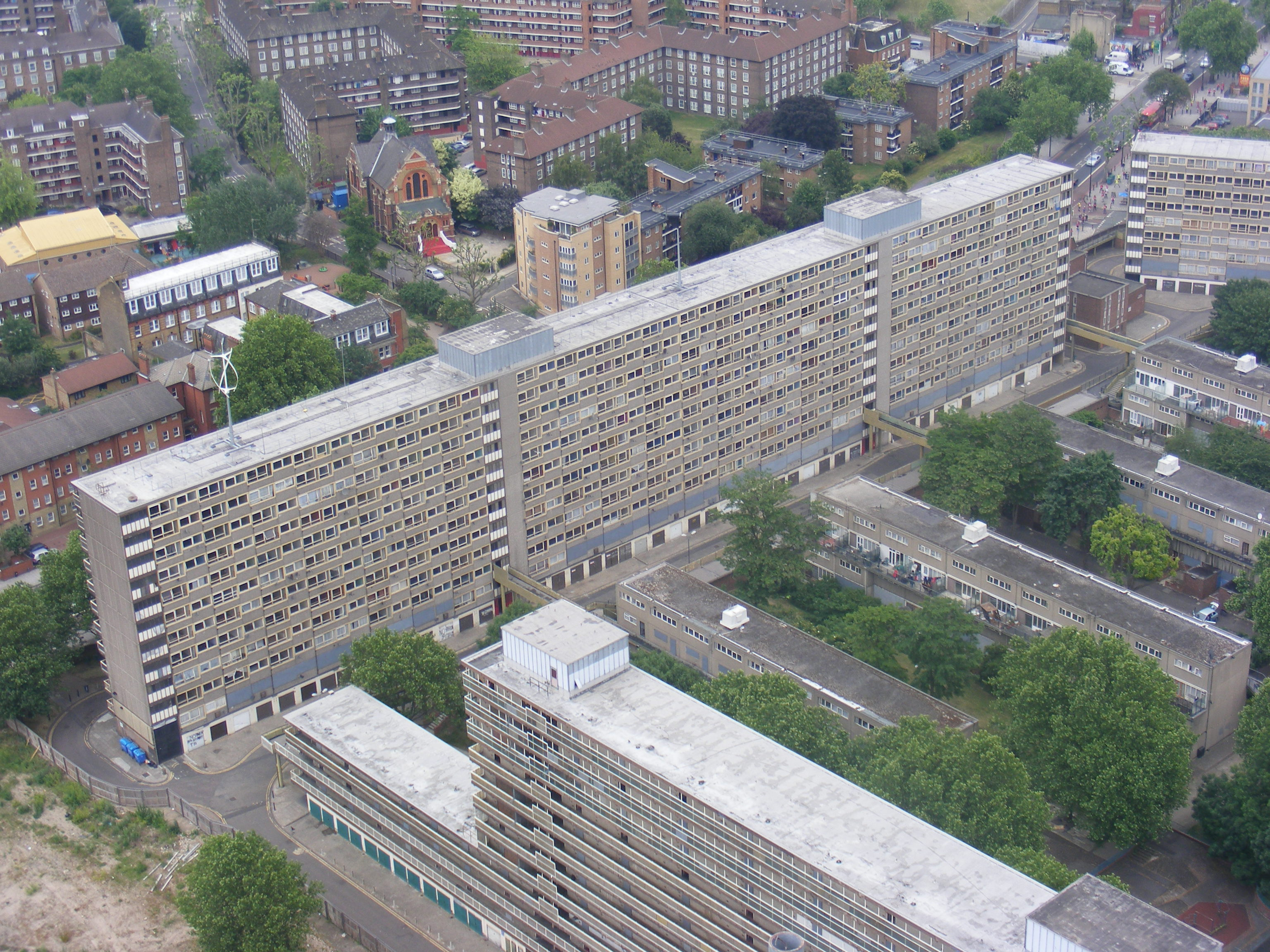 Heygate Estate near Elephant & Castle, London.